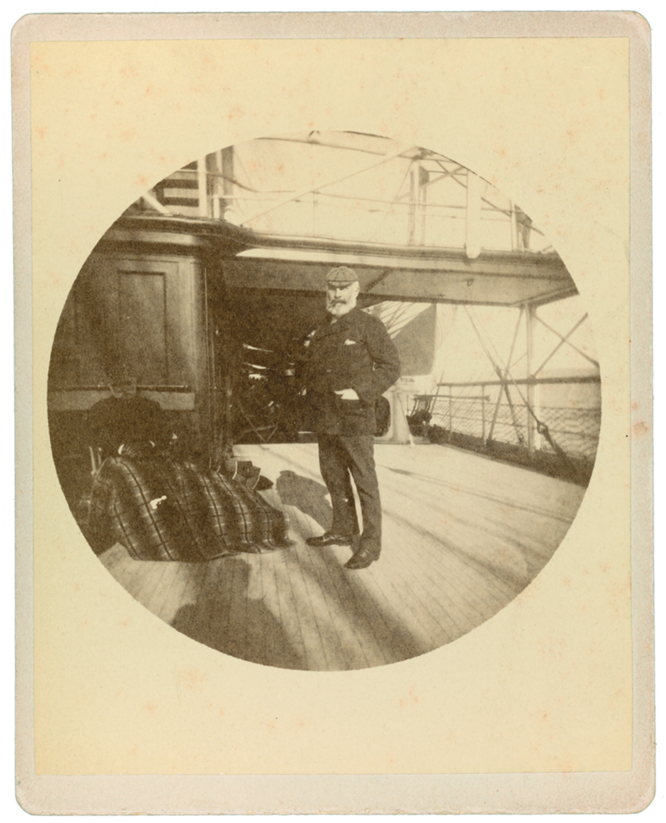 Kodak photograph of Frederick Layton on deck of ship in 1891.